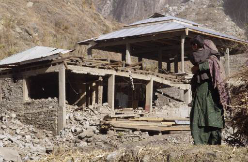 Pakistanis observe a demolished building at Nardjan, Pakistan, Dec. 10, 2005.